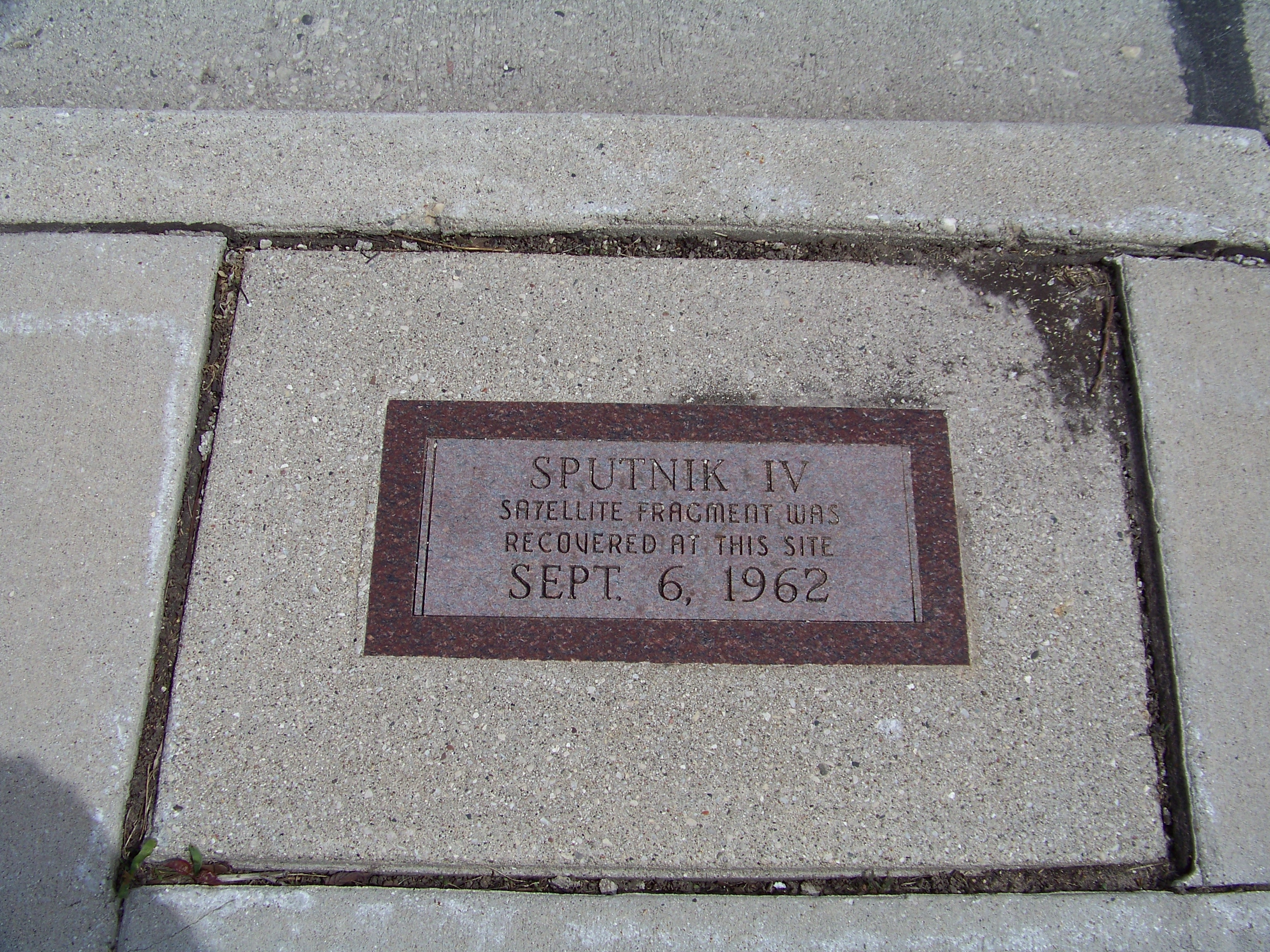 Sputnik IV impact site marker at 8th and Park in Manitowoc, WI